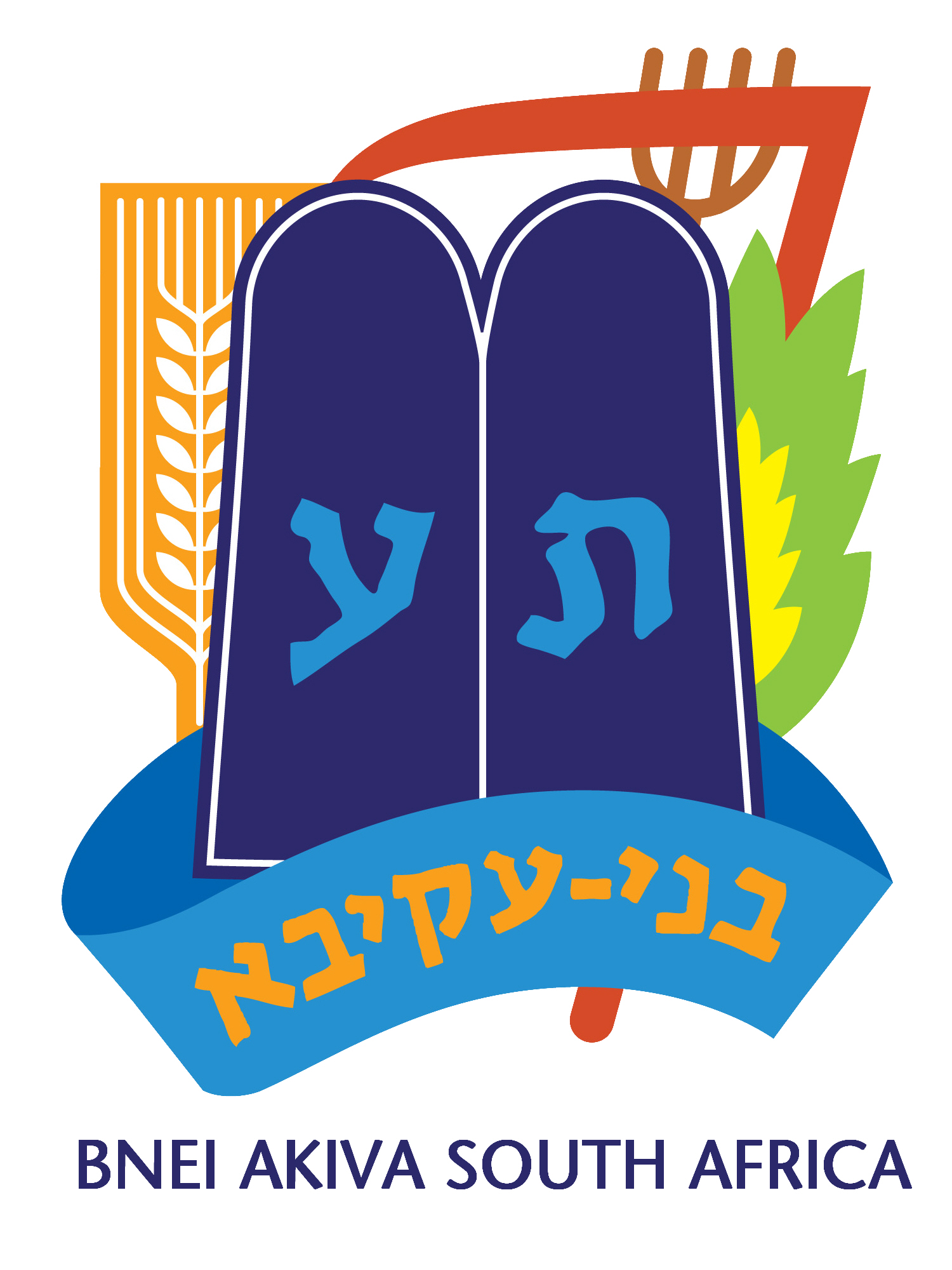 The Official Logo of Bnei Akiva South Africa